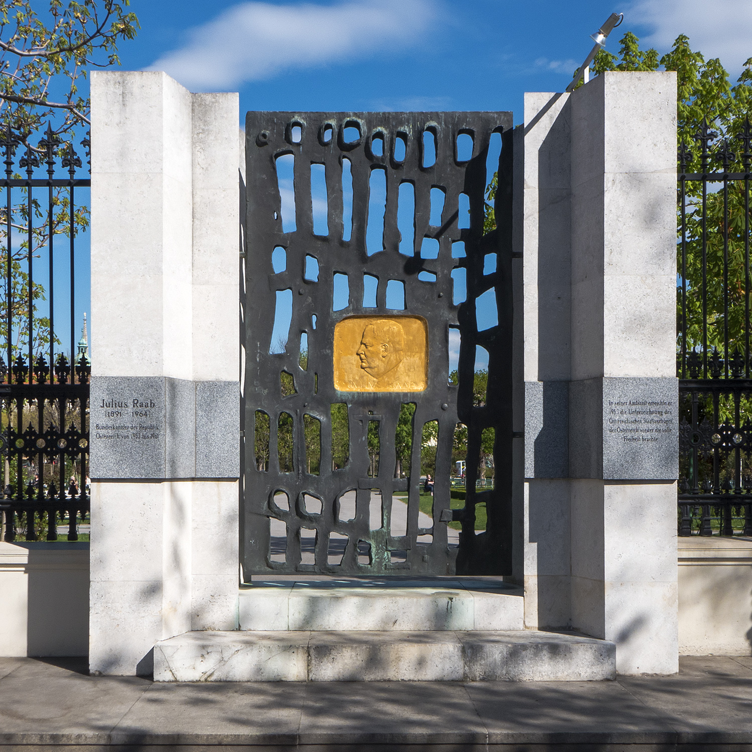 Monument for Julius Raab at Dr.-Karl-Renner-Ring in Vienna 1